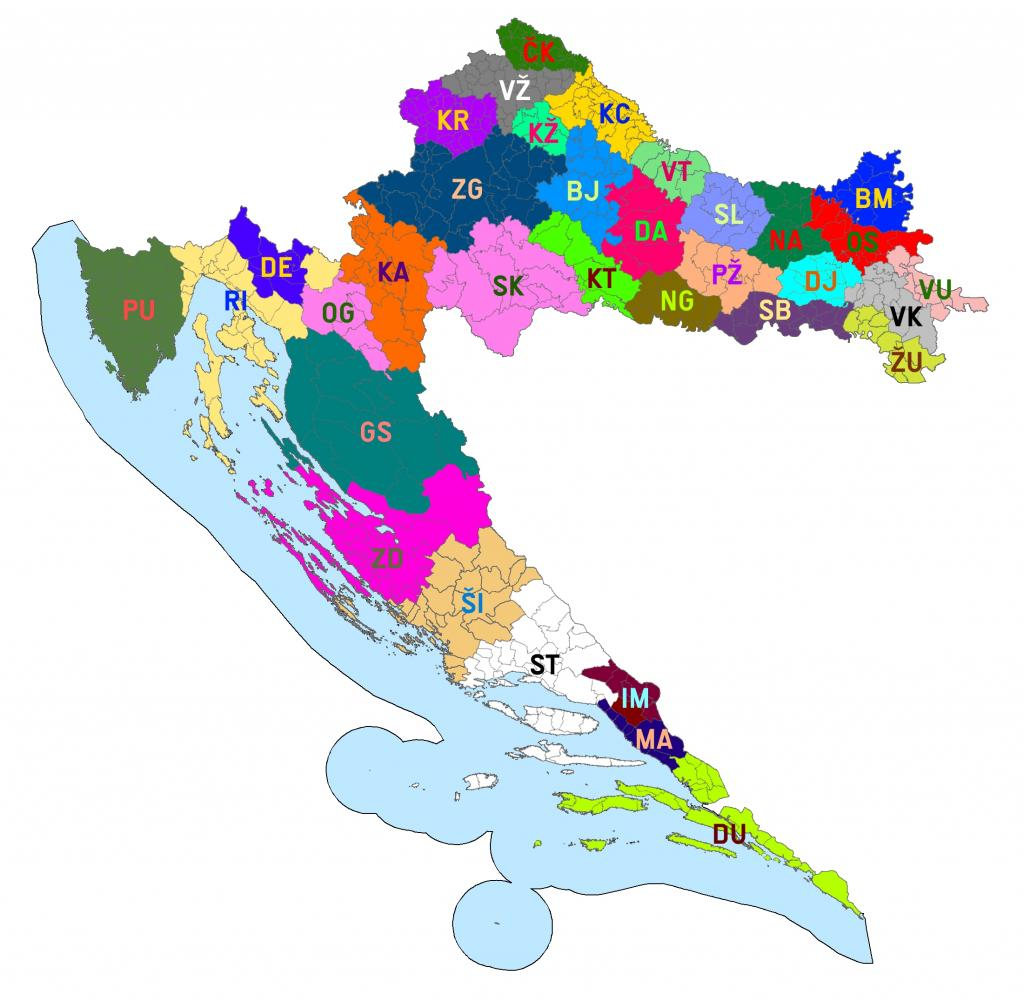 Karta registracijskih oznaka u Hrvatskoj